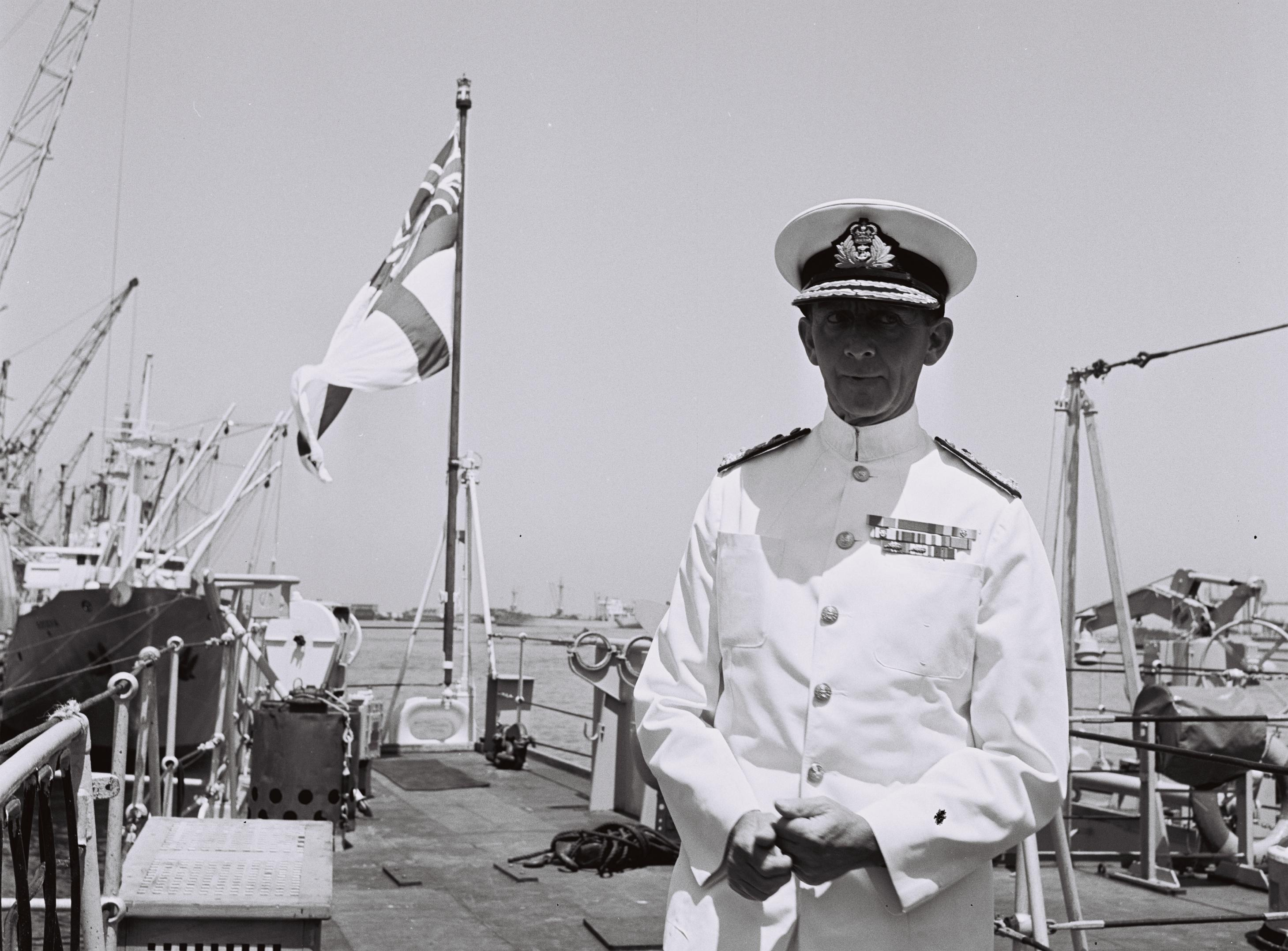 COMMANDER OF THE BRITISH MEDITERRANNEAN FLEET ADMIRAL JOHN HAMILTON ON BOARD THE FRIGATE GALATHEA PAYING A COURTESY CALL ON HAIFA PORT.